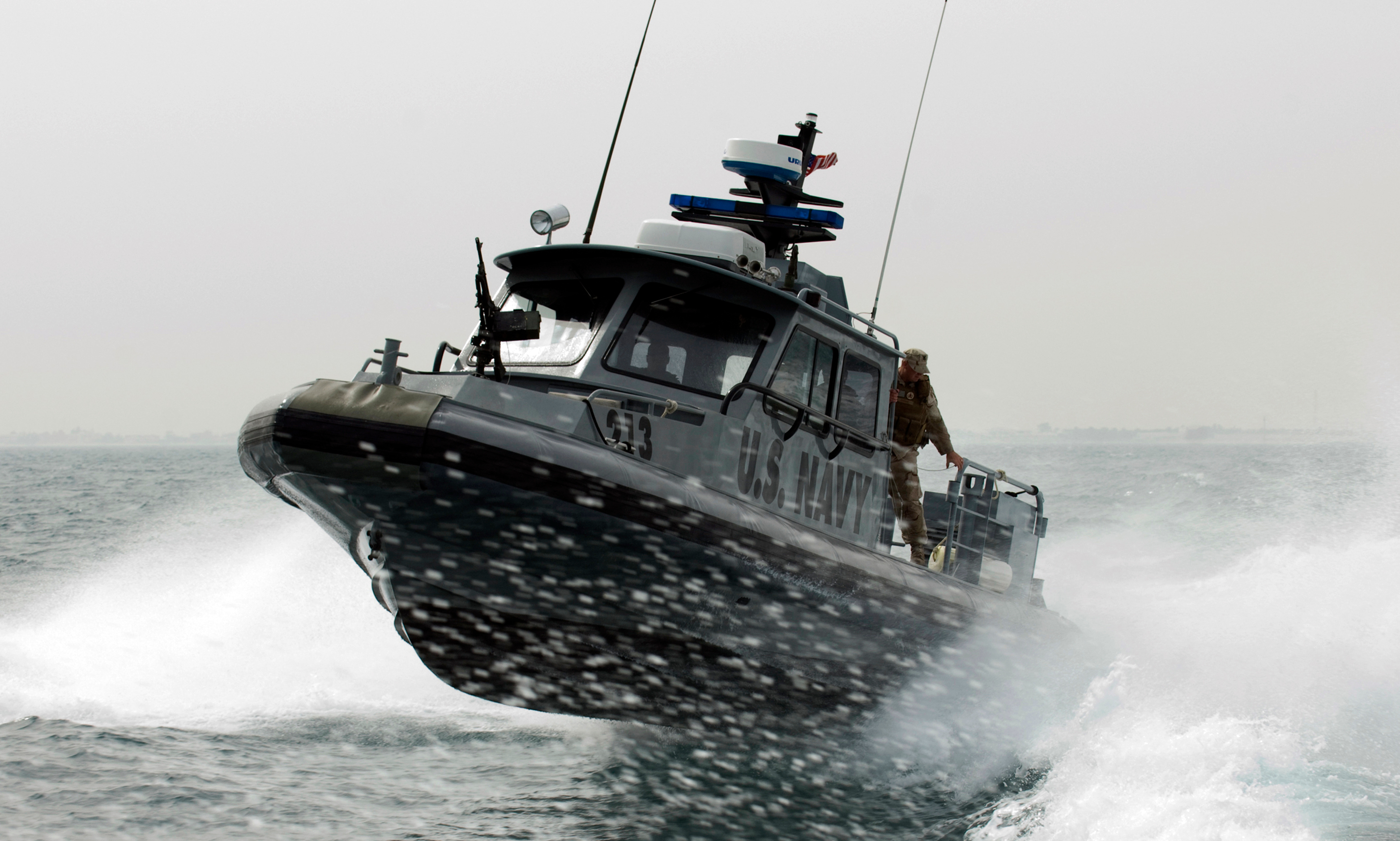 KUWAIT NAVAL BASE (Feb. 10, 2009) A port security boat assigned to Maritime Expeditionary Squadron (MSRON) 1 patrols the waters near Kuwait Naval Base. MSRON-1 is deployed supporting maritime security operations and port security operations in the U.S. 5th Fleet area of responsibility.